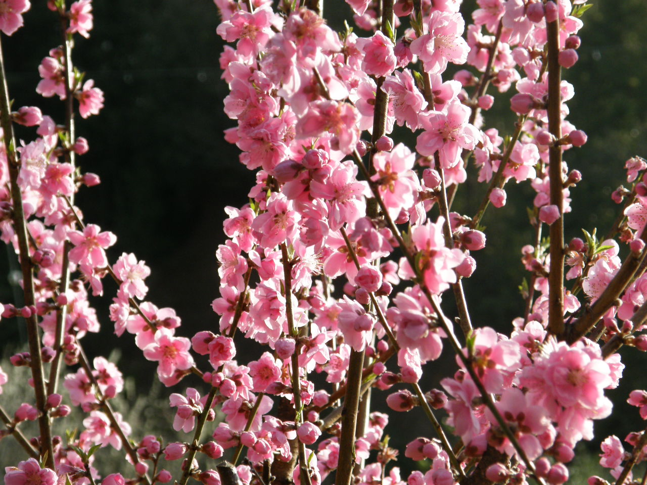 Prunnus persica